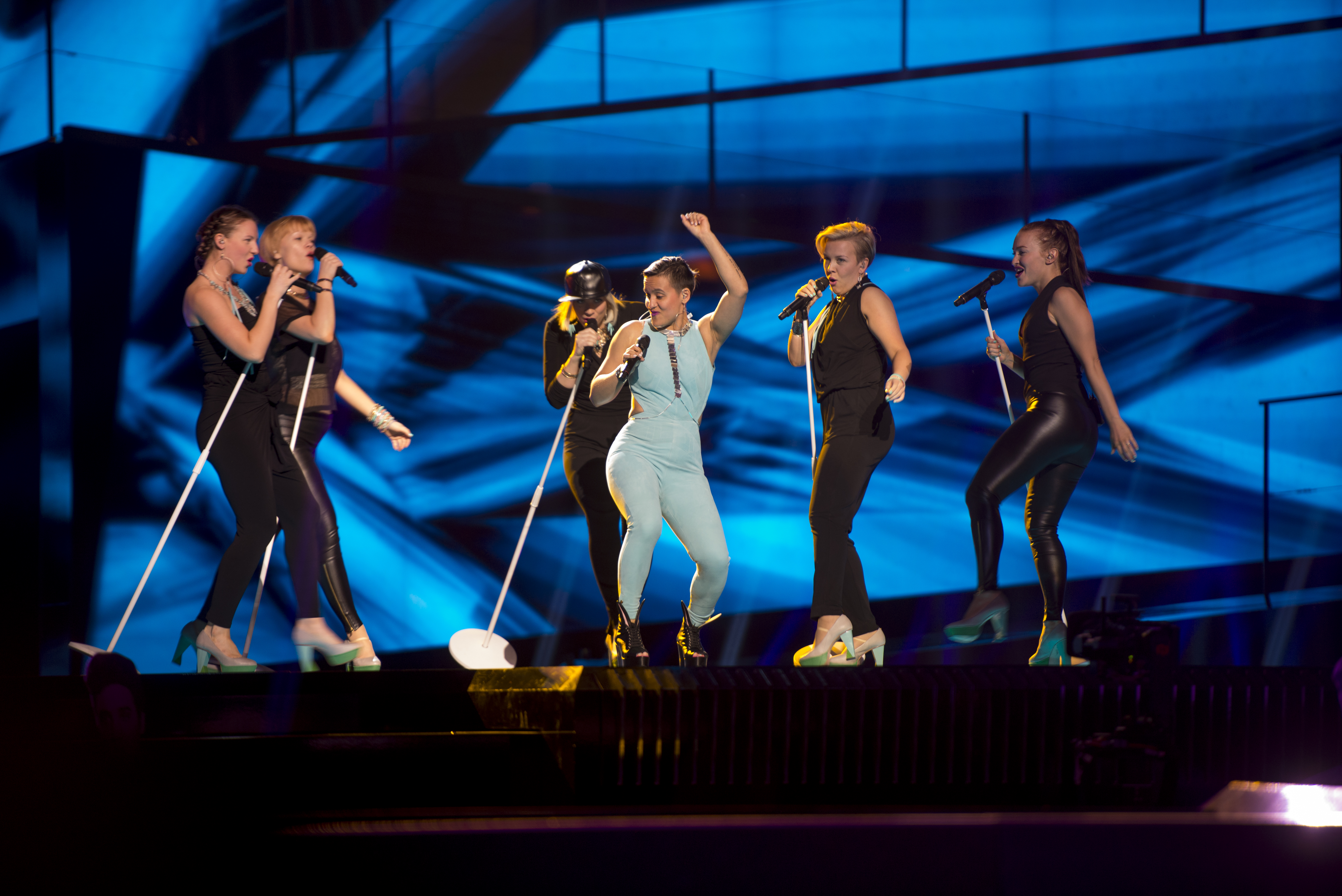 Sandhja representing Finland with the song "Sing It Away" during a rehearsal before the first semi final of the Eurovision Song Contest 2016 in Stockholm. (Help translate this text)